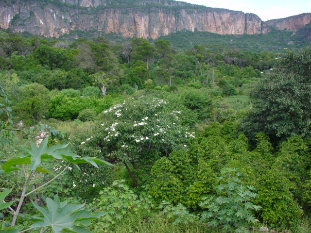 Almadow Forest, northern Somalia (area claimed by Somaliland, Puntland and Maakhir); original image name: Geeldoora6.JPG